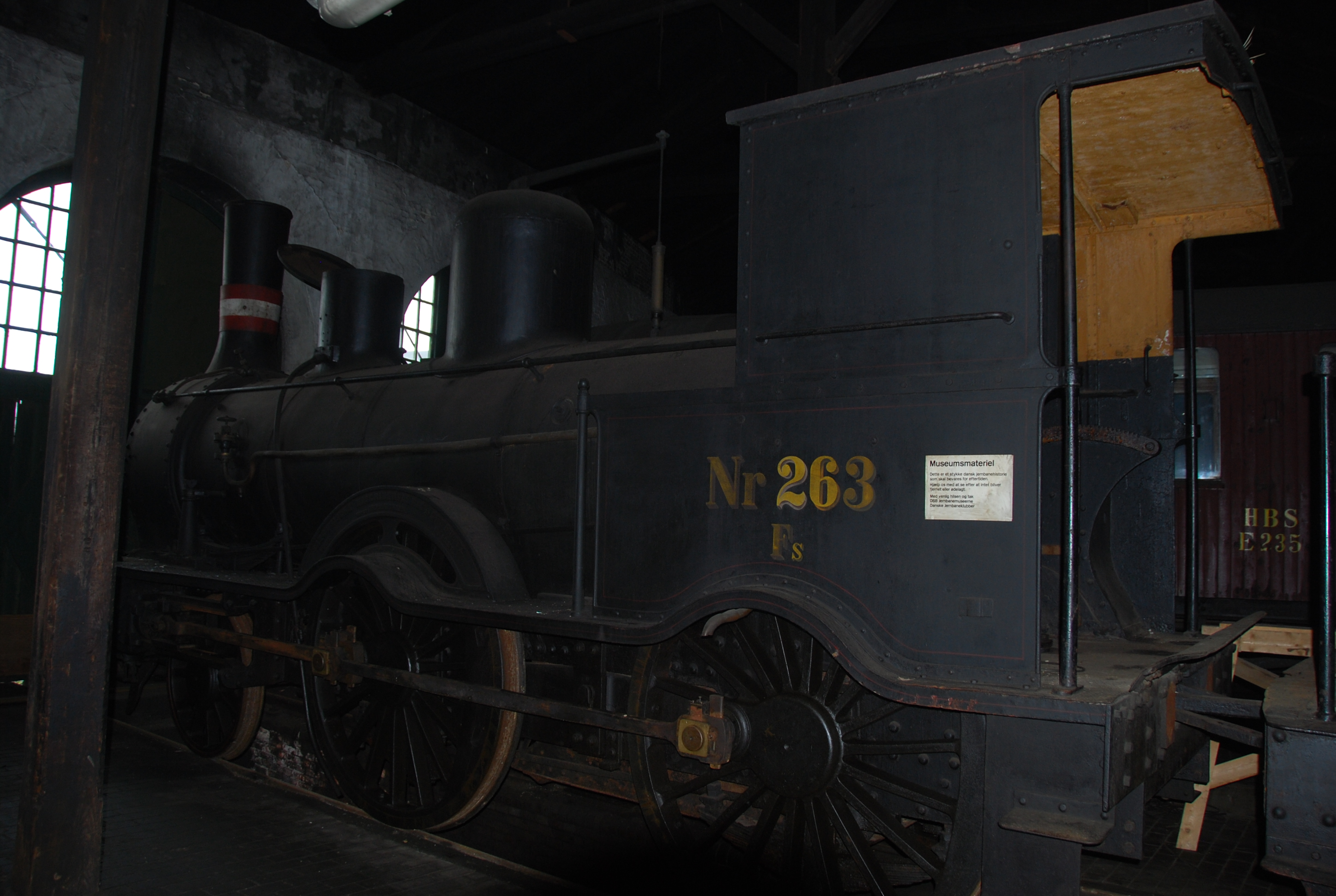 Old train inside the listed railway depot "Remisen" in Viborg, Denmark. Remisen was build in 1889 and designed by architect Niels Peter Christian Holsøe.